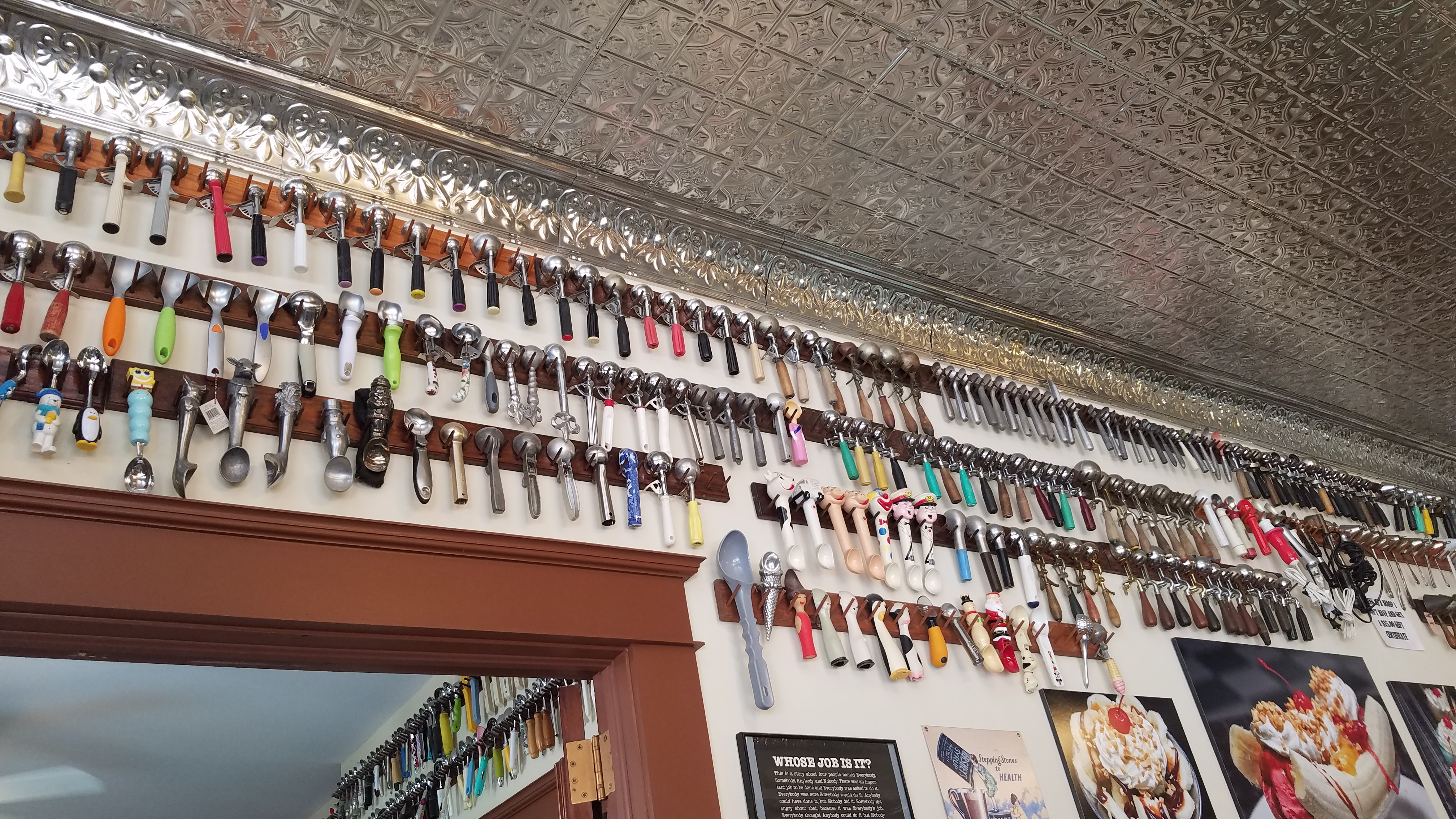 Selection of the ice cream scoop collection at the Old Town Slidell Soda Shop